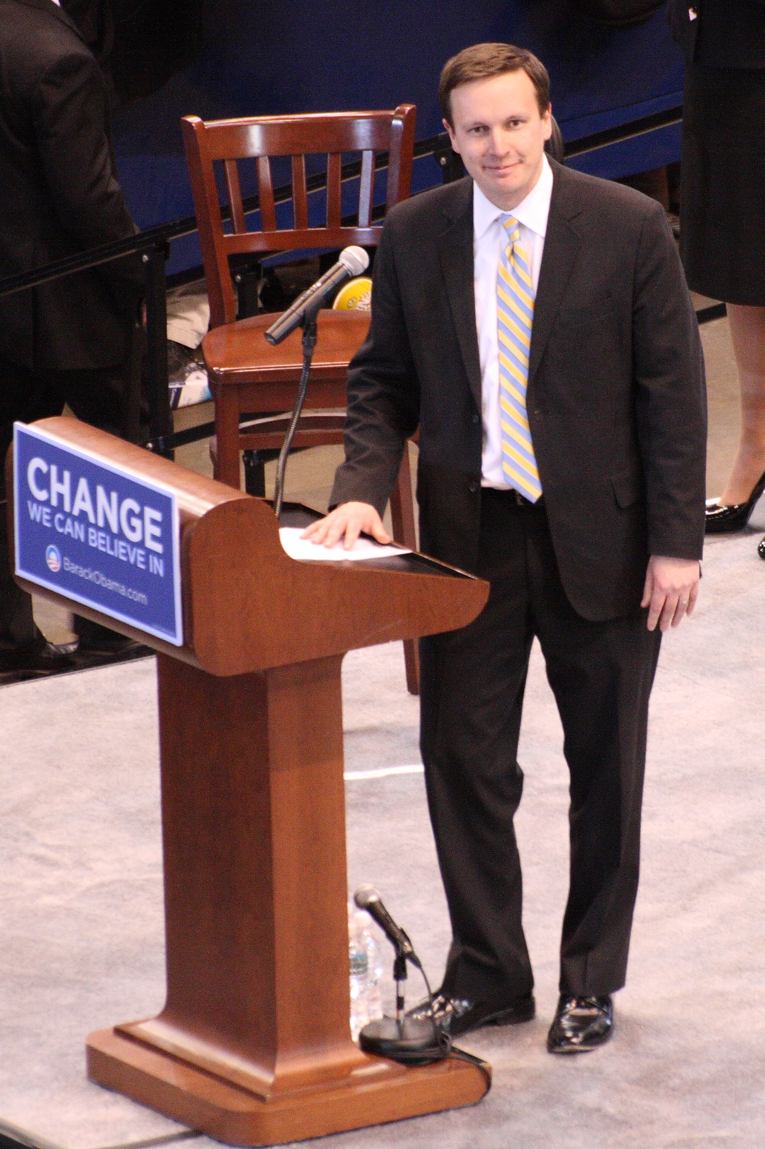 Representative Chris Murphy of Connecticut's 5th Congressional district, speaking at a rally for the presidential campaign of Senator Barack Obama in Hartford, Connecticut